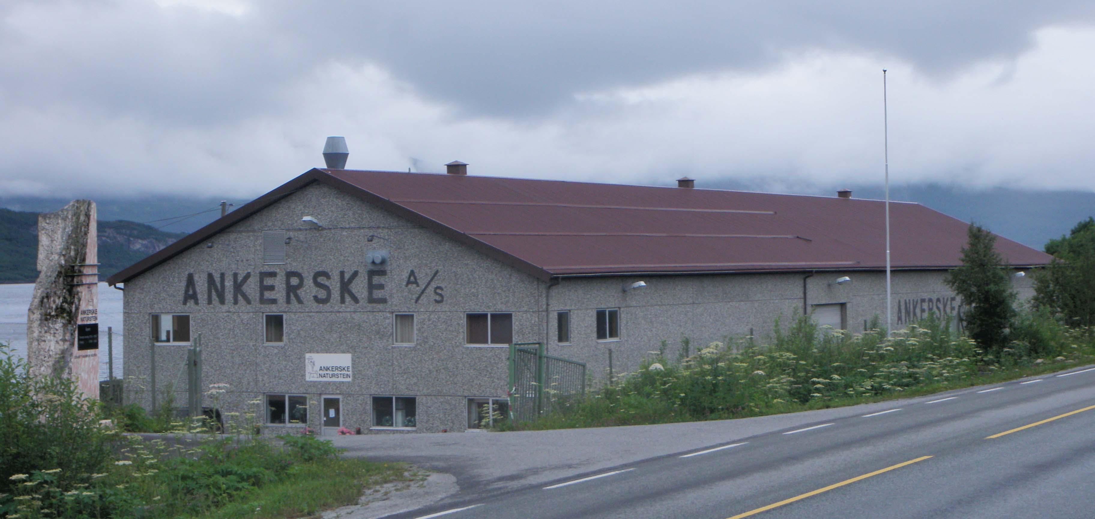 Ankerske Naturstein's marble refinery in Fauske, Nordland, Norway.